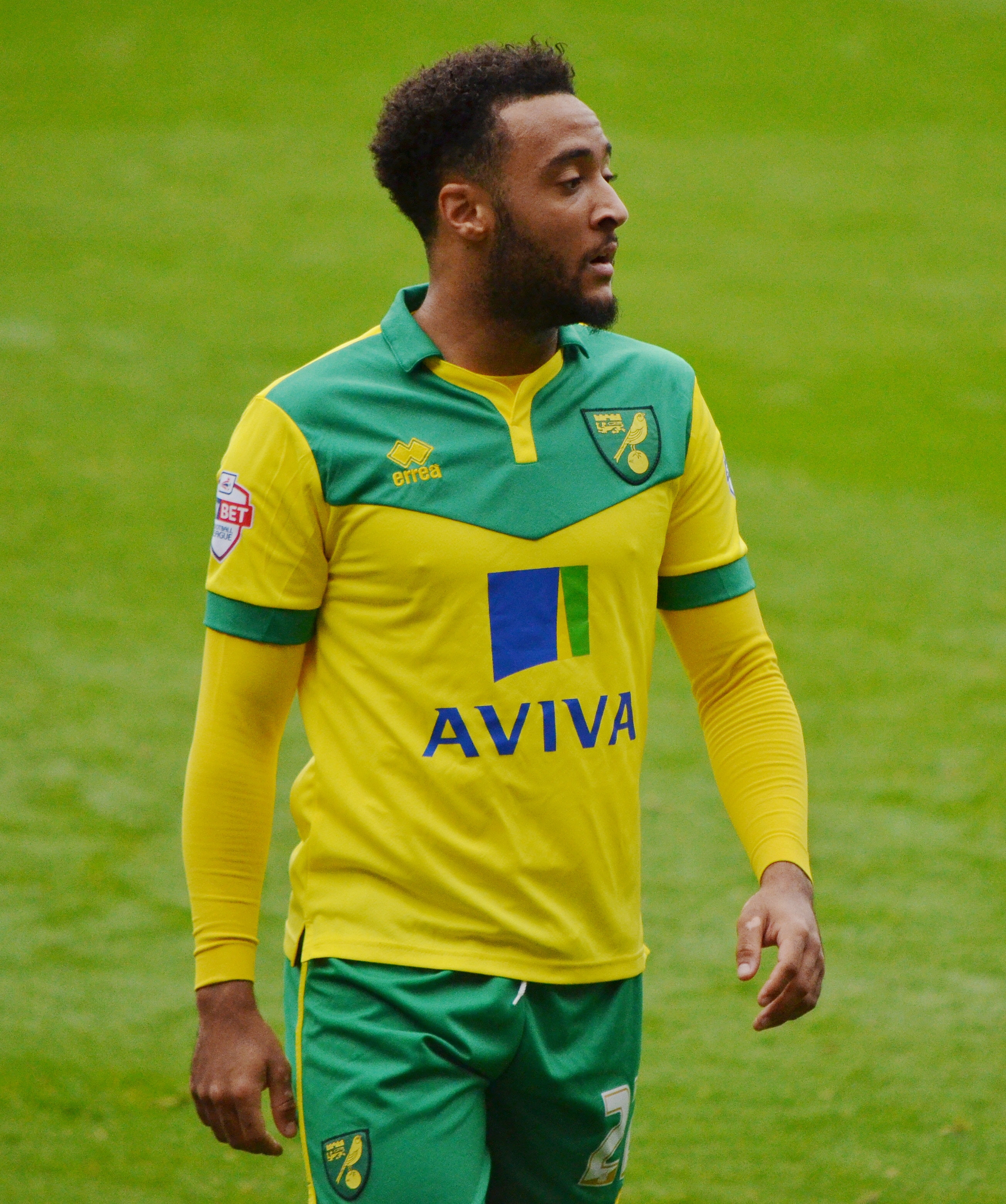 Nathan Redmond of Norwich City FC playing at Fulham FC, October 2014